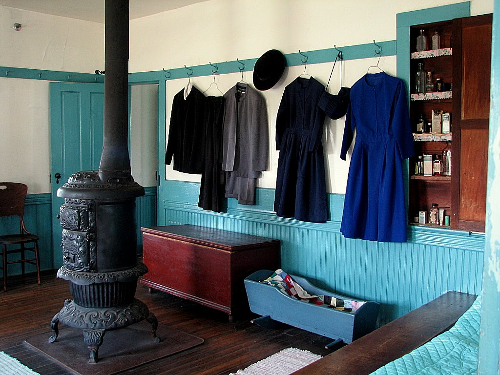 We toured this Amish farmhouse built in the 1800s. I thought the natural light streaming through the windows on the sparse interior scenes looked pretty cool.